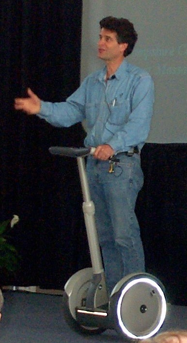 Description: Photograph of Dean Kamen on Segway Scooter speaking at the 4th Annual Assistive Technology Forum, Hampshire College, Amherst, Massachusetts, USA. Source: Photograph taken by Jared C. Benedict on 03 May 2002. Copyright: © Jared C. Benedict. Released under the GFDL by photographer Jared C. Benedict (myself).